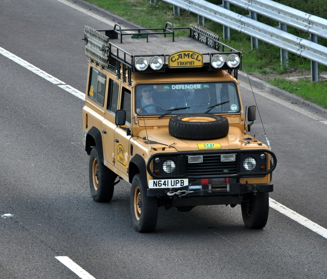 M42 Motorway - Camel Trophy Landrover Travelling along the M42 motorway in Warwickshire.